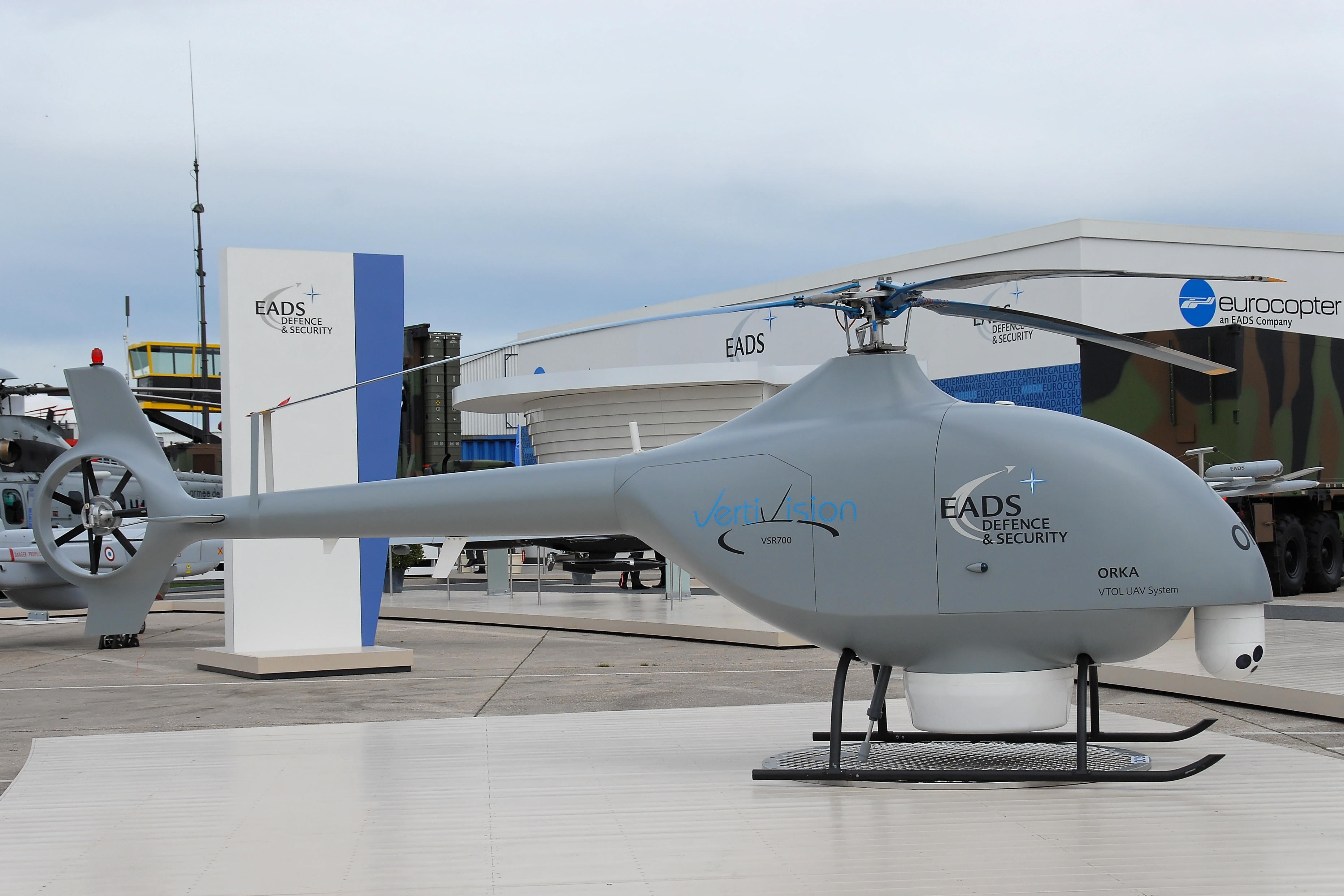 An EADS ORKA VTOL tactical UAV at the 2007 International Paris Air Show at the Le Bourget airport.